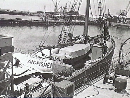 Royal Australian Navy ship HMAS Wyatt Earp alongside at Nelson Pier, Williamstown, Victoria, preparing for voyage to Antarctica. Note deck cargo includes parts of a Royal Australian Air Force OS2U Kingfisher amphibian aircraft.